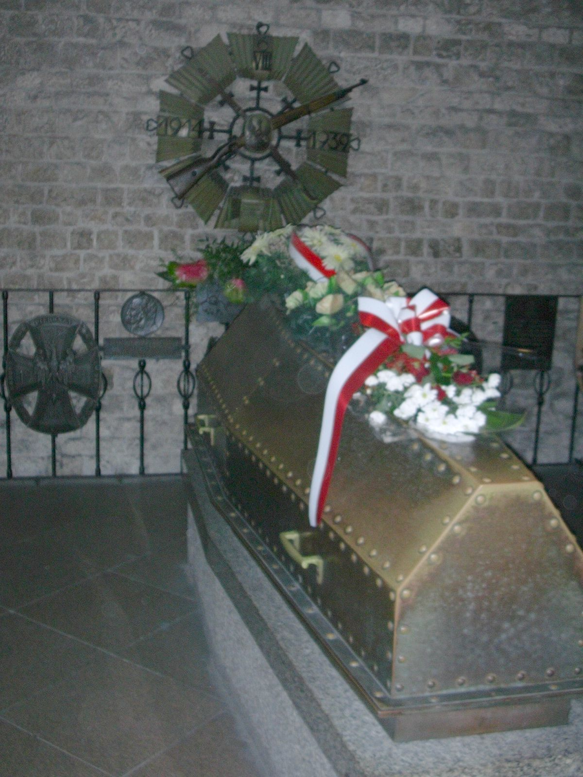 The coffin of Józef Piłsudski - Polish statesman, Field Marshal, first Chief of State (1918–1922) and dictator (1926–1935) of the Second Polish Republic - in the tomb in Kraków (Cracow)